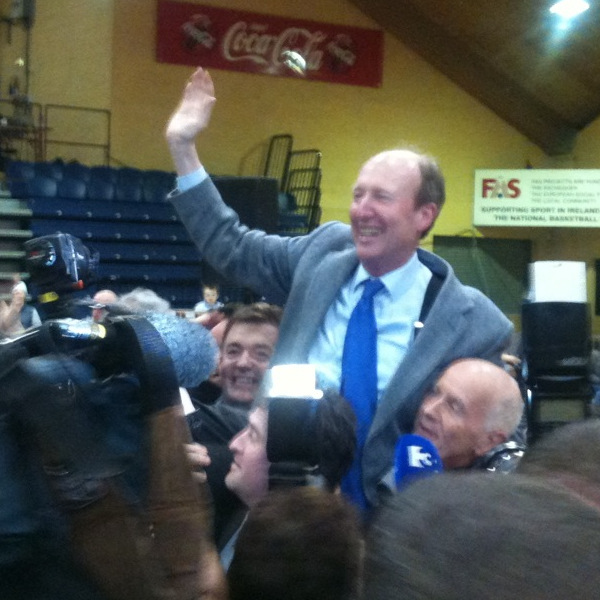 Shane Ross after being elected in the 2011 Irish general election